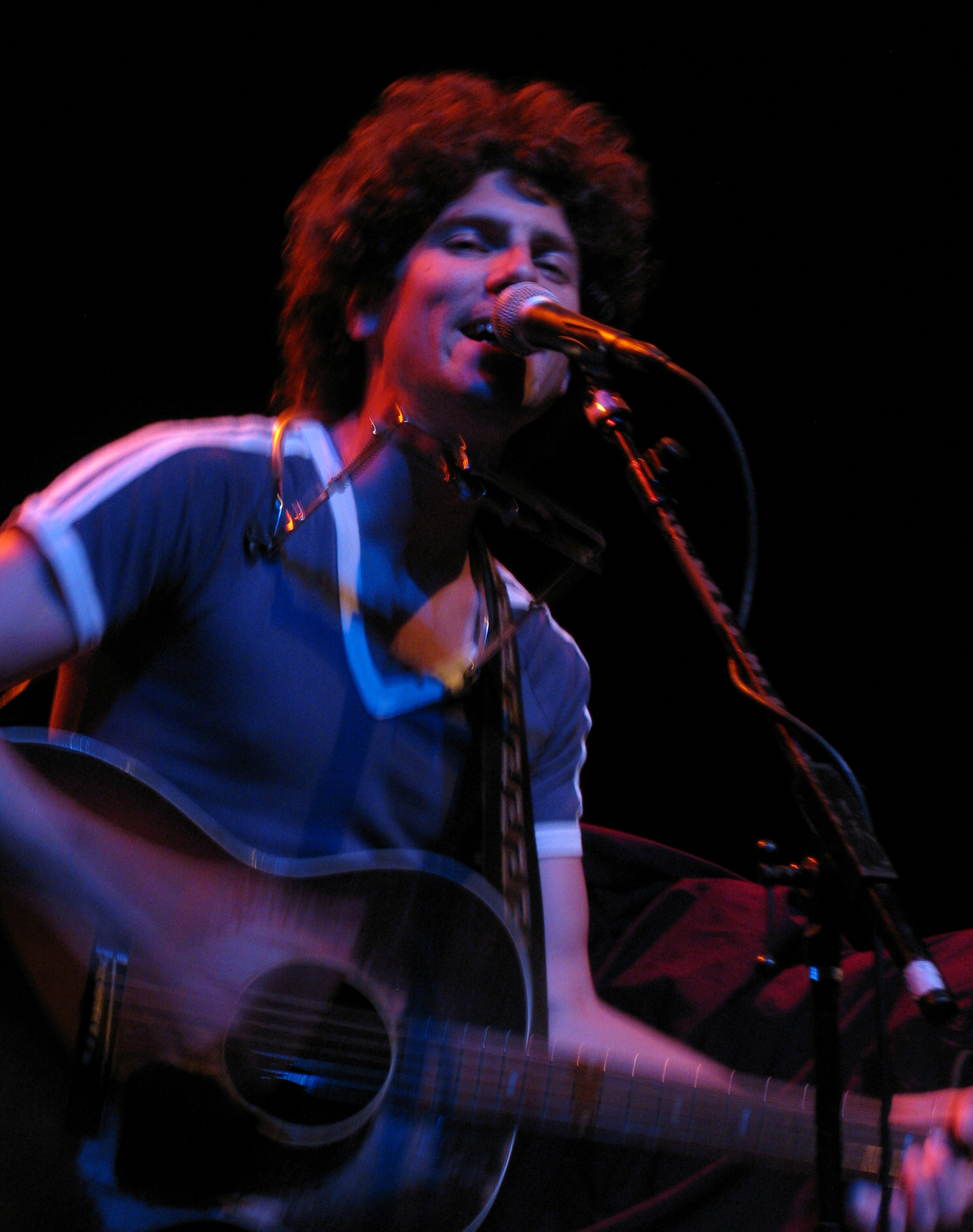 From flickr: Jeremy Fisher: Washington DC - 930 Club - Jeremy Fisher Some opening acts come off as weak, with the crowd uninterested & the performer's confidence visibly wavering. Jeremy, however, had a calm personality reminiscent of an older brother... readily engaging the crowd despite a soft voice and not too much change in stance. While his style of music isn't something I would typically listen to, I can't deny that his voice and talent with a guitar are quite high. His companion Isaac provided a good beat. I enjoyed the rendition of Peter Gabriel's "Solsbury Hill" ....